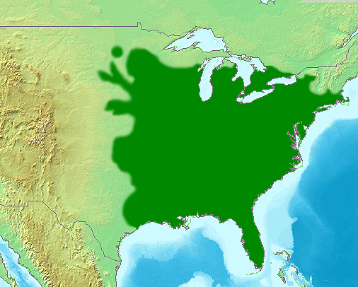 Range Map of Melanerpes carolinus